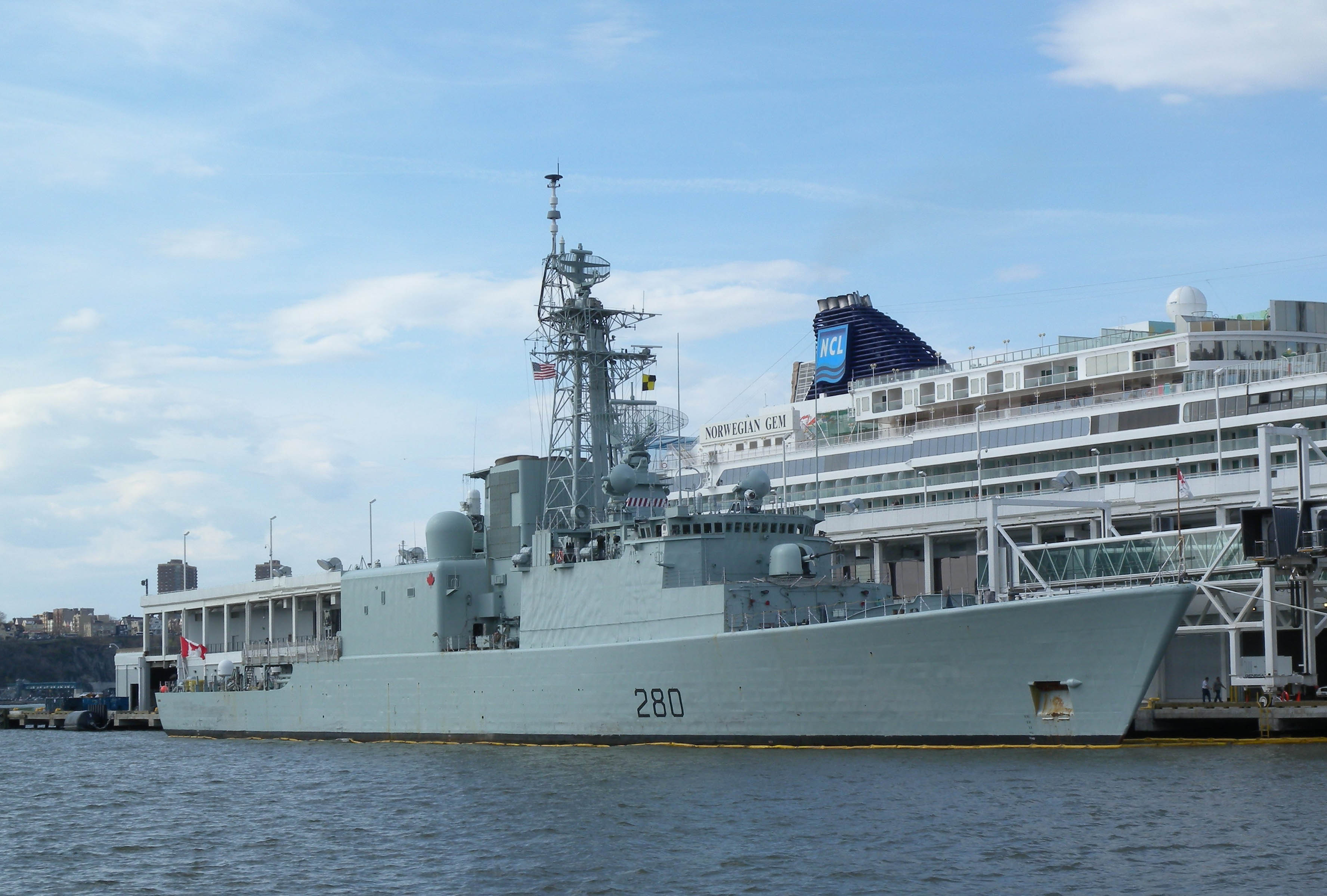 Looking northwest at HMCS Iroquois (DDH 280) at North River Pier 88 of New York Cruise Terminal.